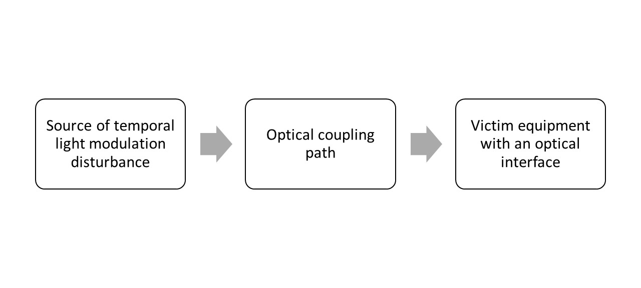 Triptych of TLI